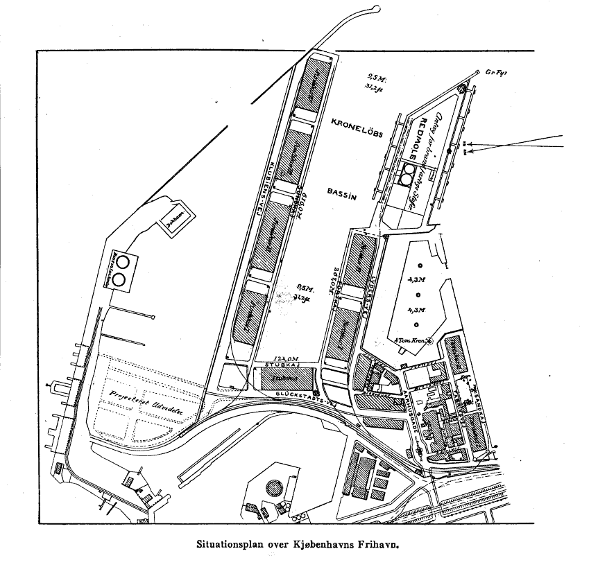 Map of the Free Port of Copenhagen, printed in Salmonsens Konversationsleksikon (1915-30), which is public domain. Part 2.